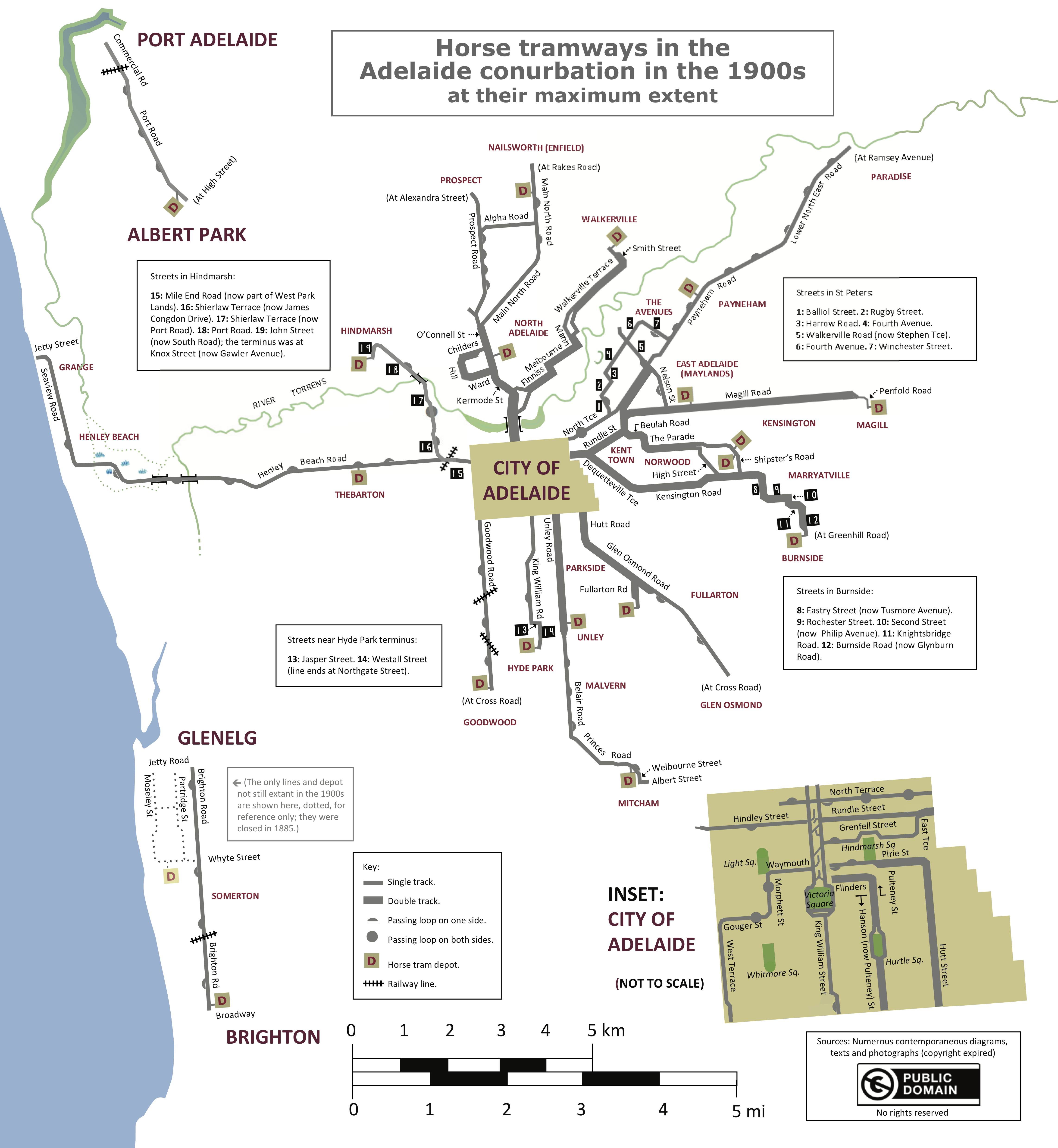 The map was created using data from numerous contemporaneous sources: diagrams, texts and photographs (copyright expired) to show the maximum extent of the 119 km (74 mi) horse tram routes of Adelaide, South Australia. (The dotted lines near Glenelg, at the bottom left corner, were in fact closed in 1885 but have been included for reference. All other routes were in place when their extent was at its maximum in the 1900s.) The Glenelg–Brighton line and the Port Adelaide–Albert Park line were separate from the rest of the system, which radiated from the City of Adelaide.